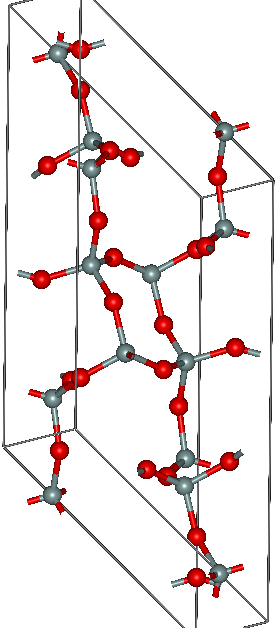 Moganite (SiO2), red atoms are oxygens